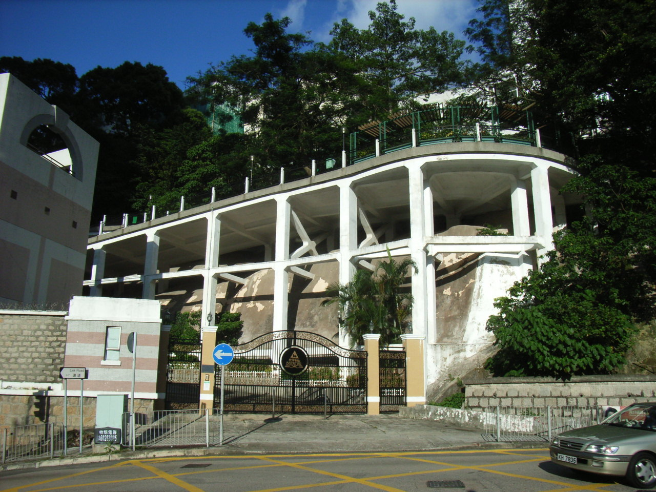 比華利山, Beverly Hill, 6 Broadwood Road, Happy Valley, Hong Kong Author: BEVERLYSHEN